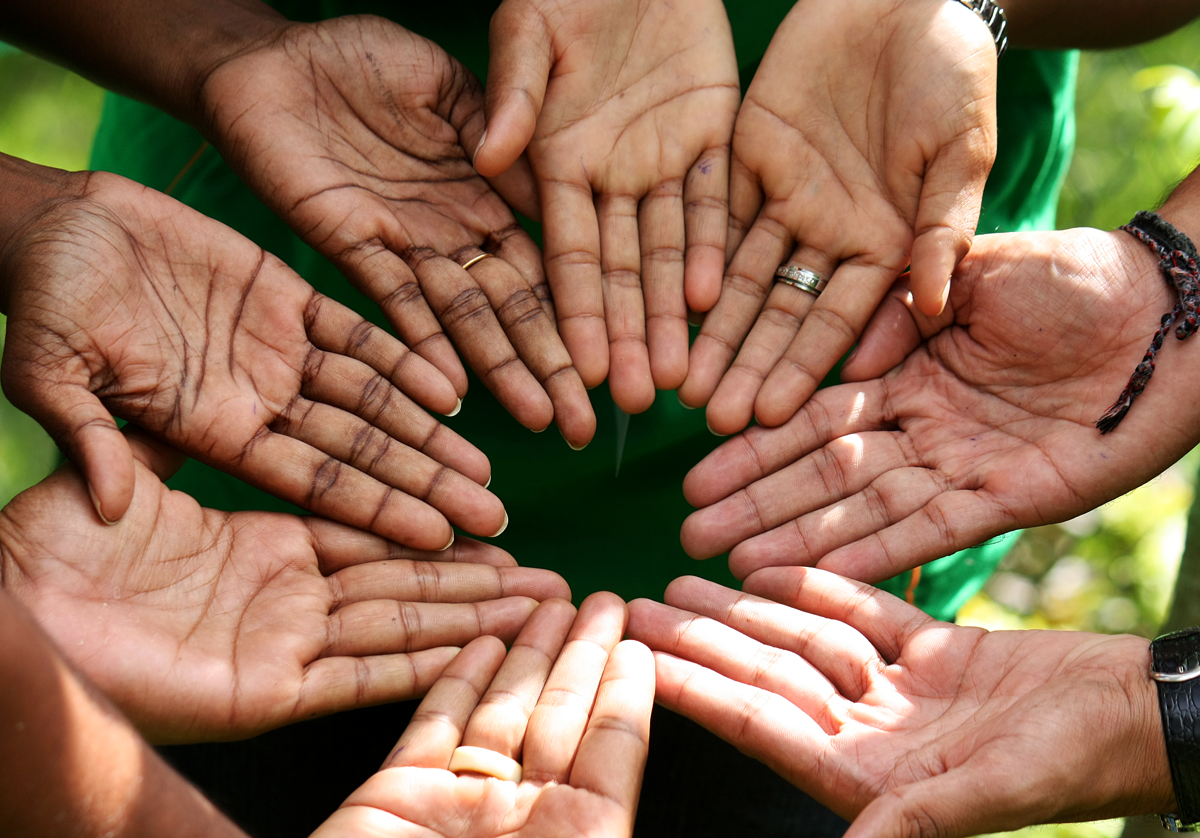 Staffs in Sri Lanka imitate the logo of CARE International during their friendship gathering. This photo has been taken in the country: Sri Lanka